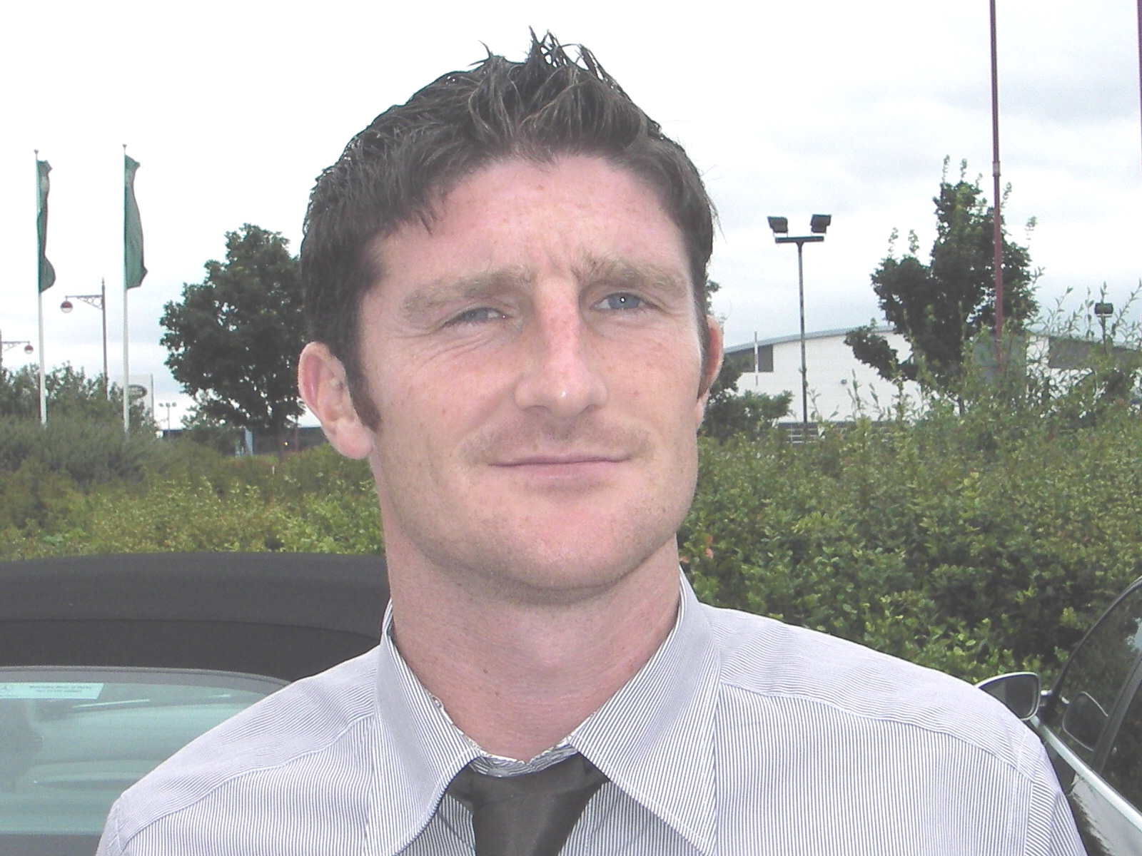 Jon Macken, Derby County player.